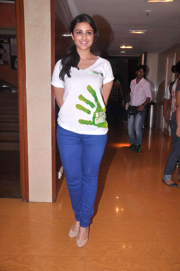 Parineeti Chopra From The NDTV Greenathon at Yash Raj Studios